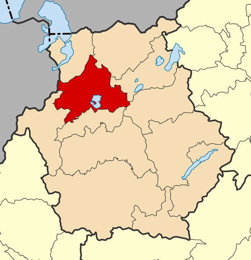 Locator map for Kastoria municipality in Greek region West Macedonia (2011)